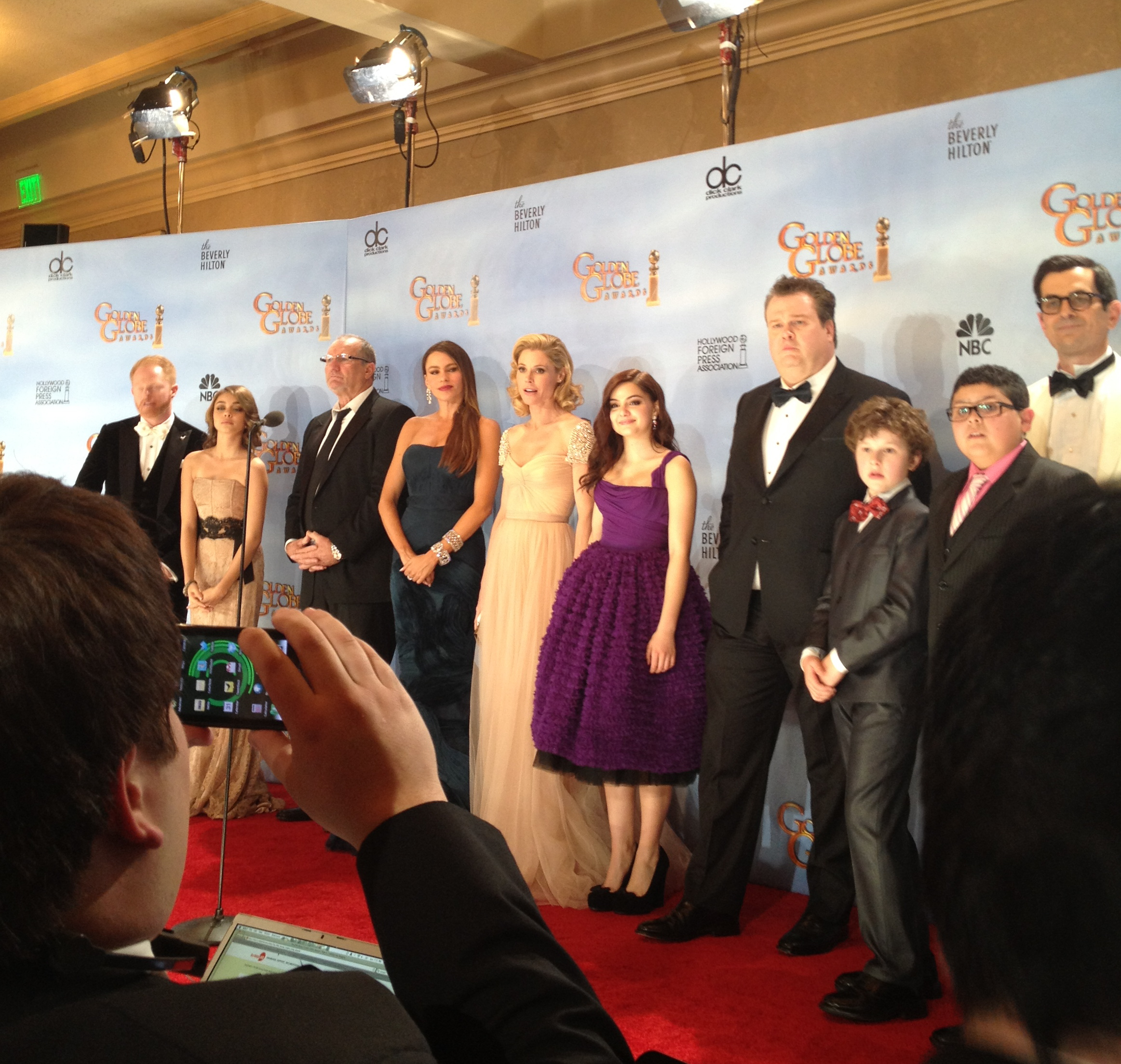 69th Annual Golden Globes Awards.